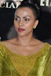 Zeritu at the Gumma awards